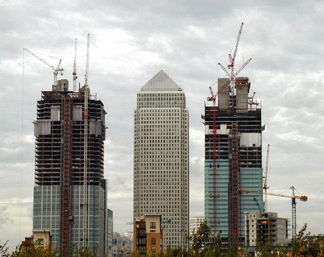 Canary Wharf. Looking West from the Dome site. During construction of 25 Canada Square (left) and 8 Canada Square (right)